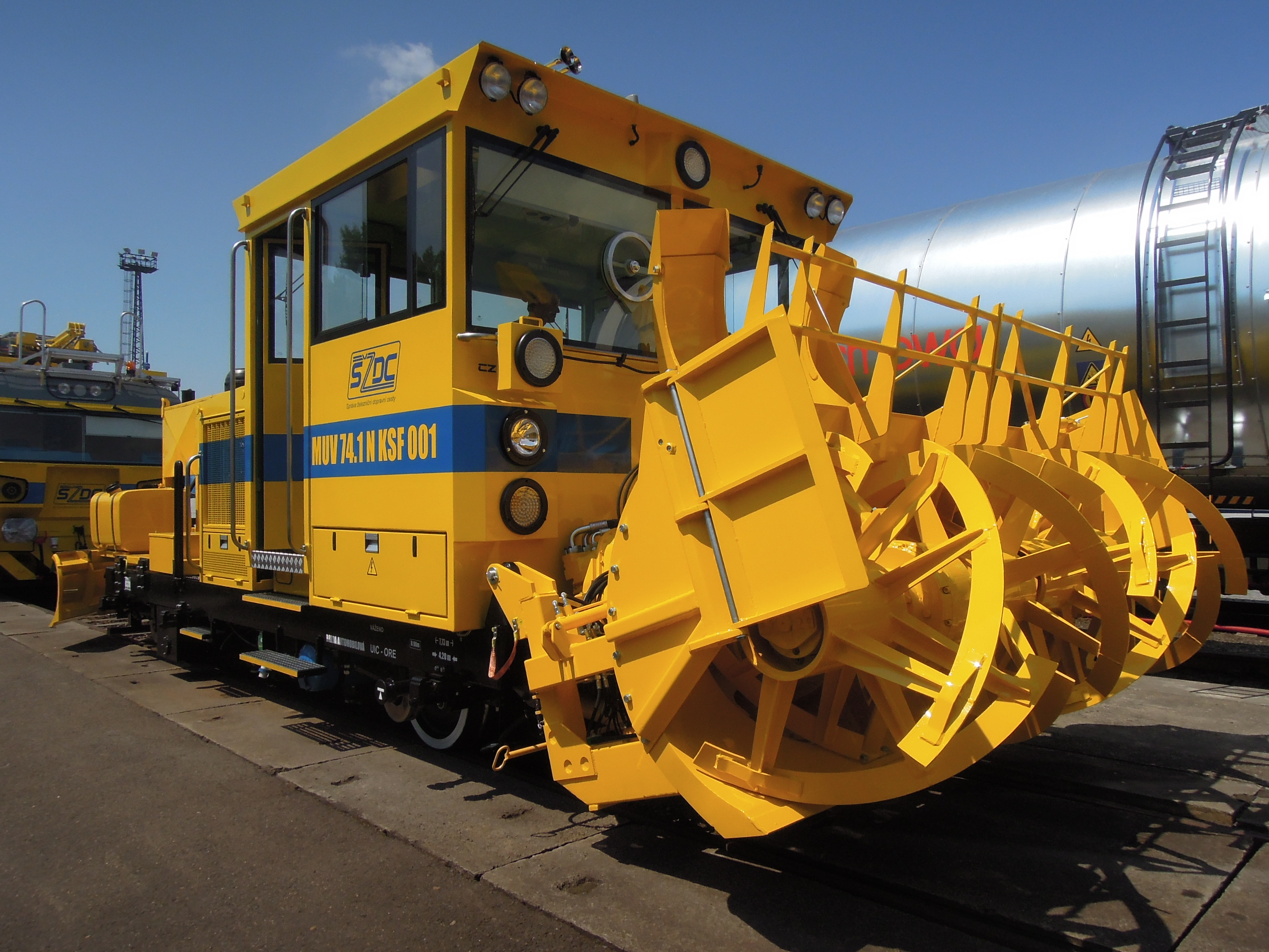 Railway coach MUV 74.1of Správa železniční dopravní cesty at the Czech Raildays 2013 trade fair in Ostrava, Czech Republic